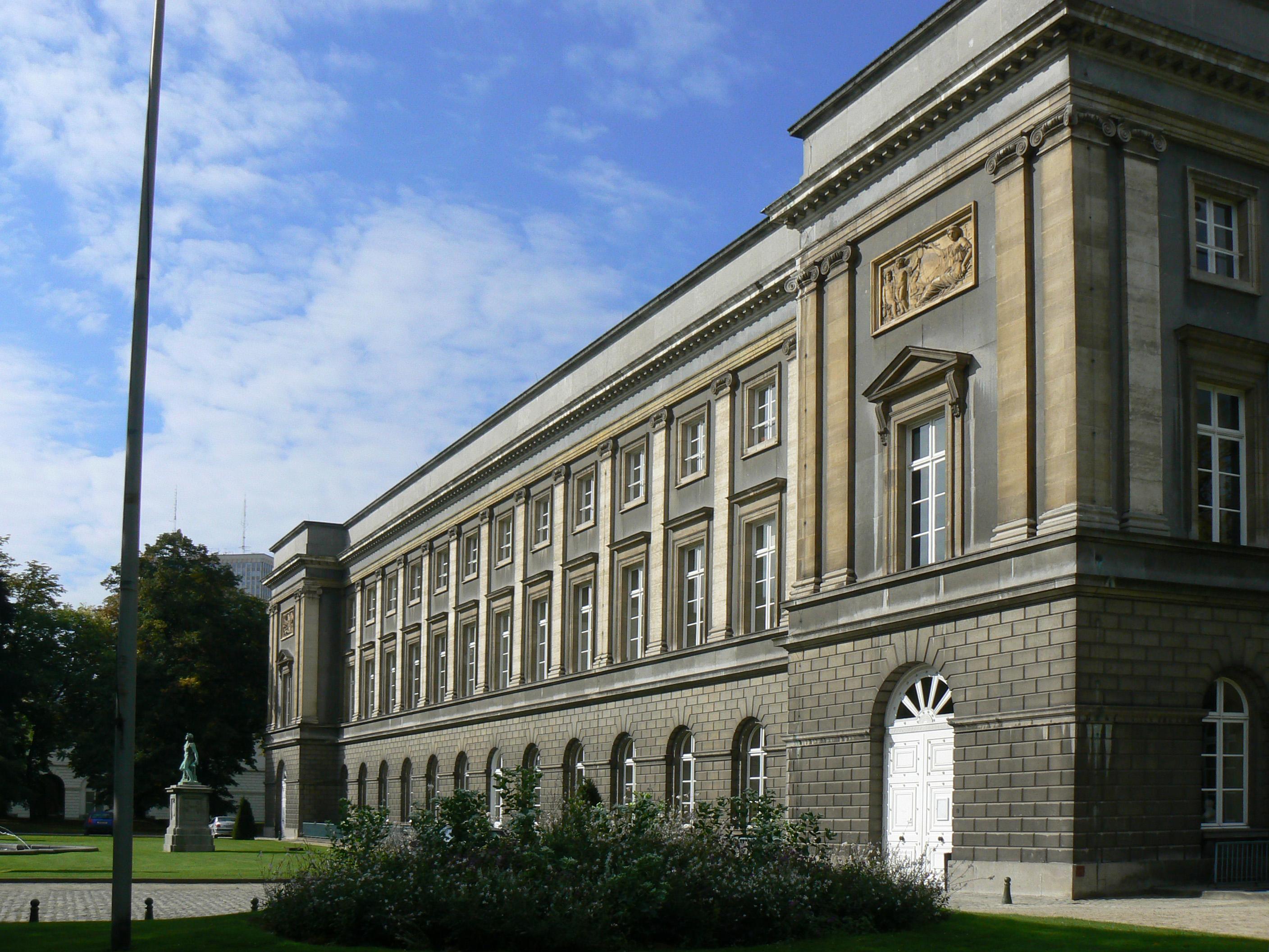 Palais des Académies de Bruxelles